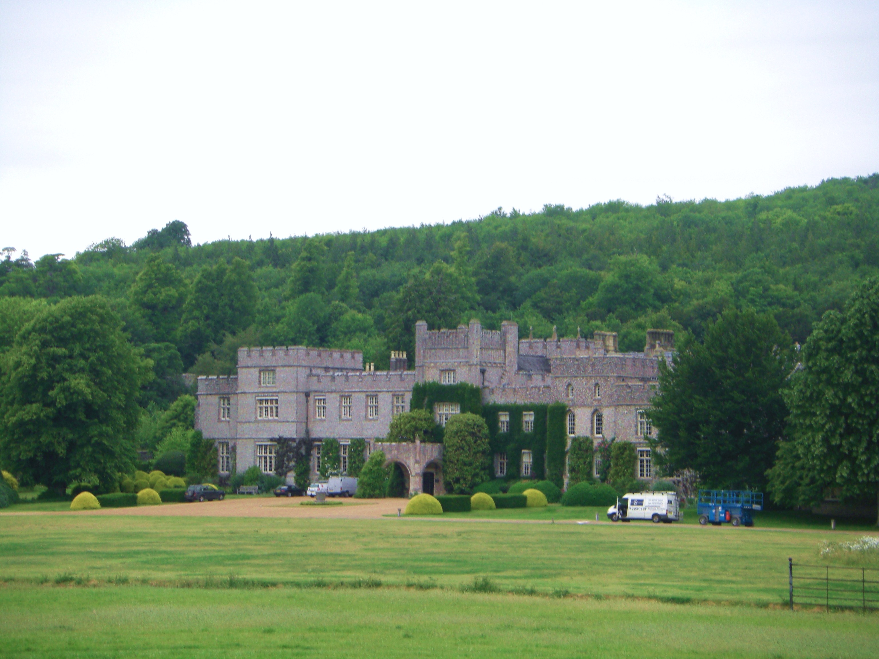 Taken in August 2007